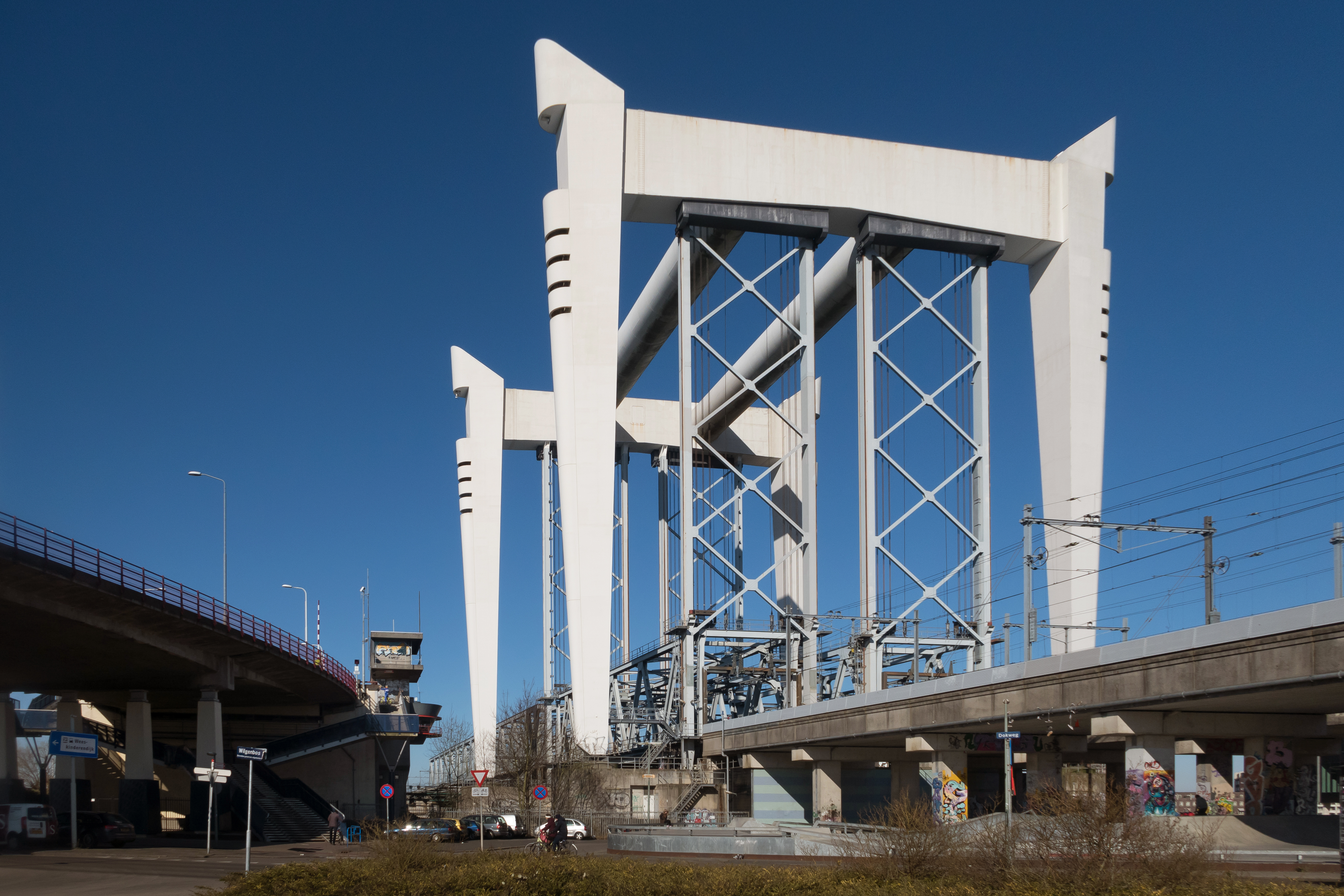 Dordrecht, bridge: de Zwijndrechtse Brug